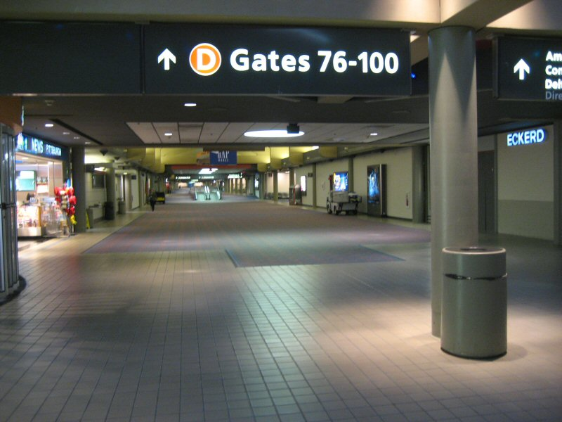 Beginning of Concourse D.